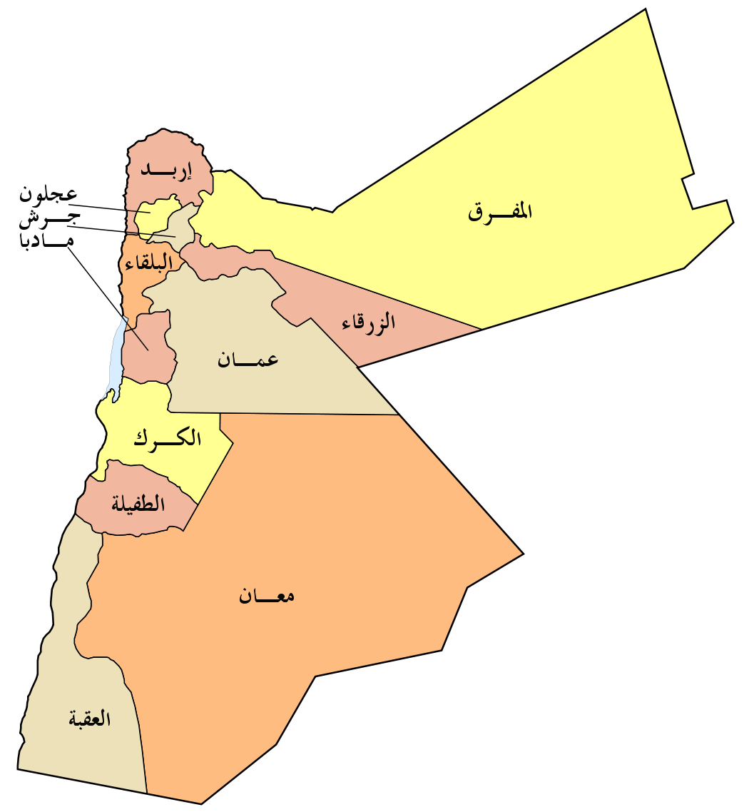 arab version of jordan gouvernerates